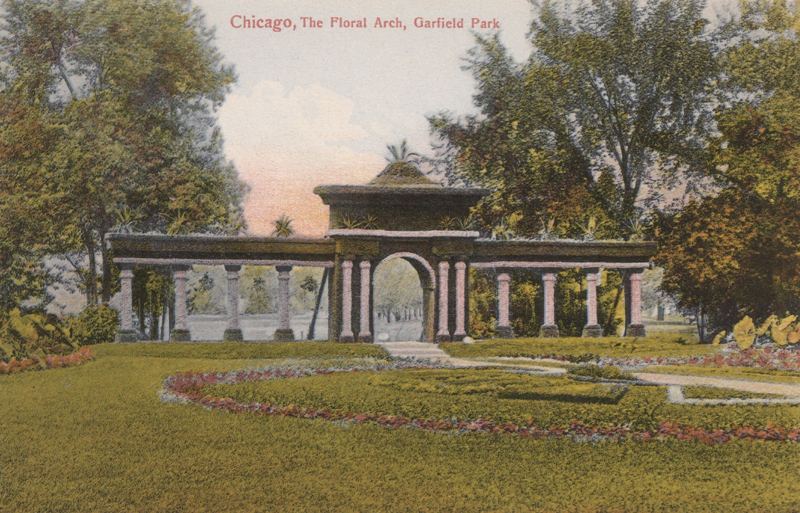 Matte color postcard of Garfield Park (Chicago park). Back is divided. Printed in Germany.